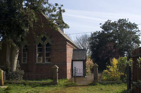 St.Mark's Church, Eagland Hill The church is hidden in among the houses of Eagland Hill and virtually impossible to isolate in a photograph